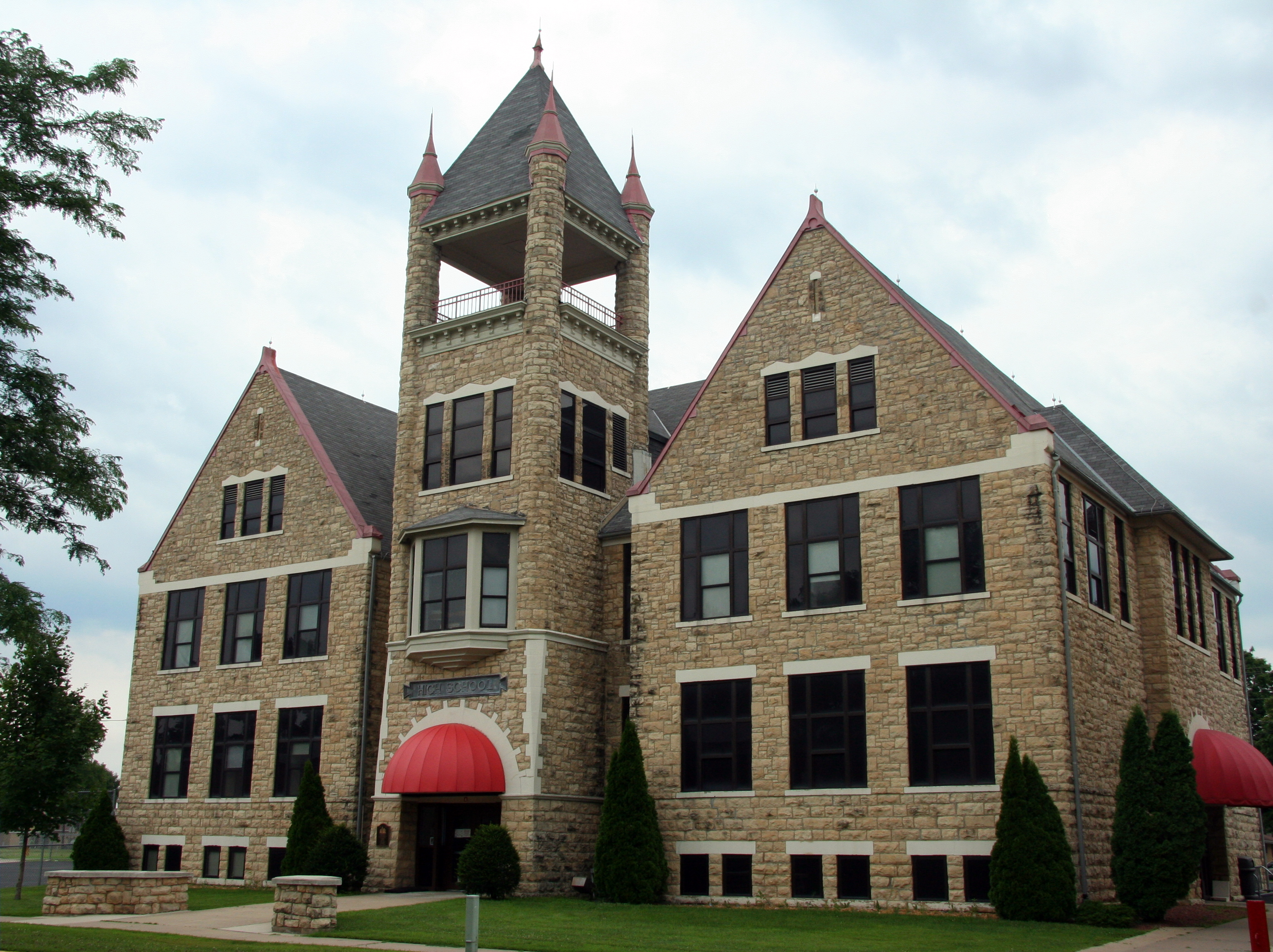 Historic Boscobel High School, now called Rock School, seen from Buchanan Street in Boscobel, Wisconsin